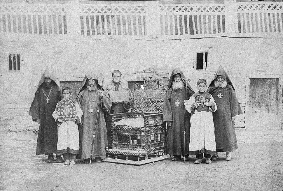 Armenian monks and boys with throne of King Senekerim-Hovhannes of Vaspurakan, at Varagavank Monastery, Van, Turkey